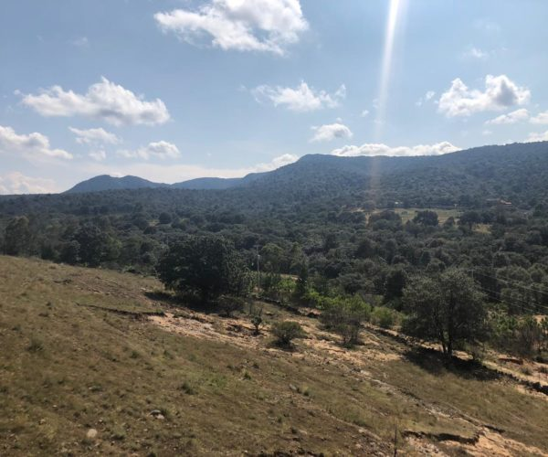 Bosque